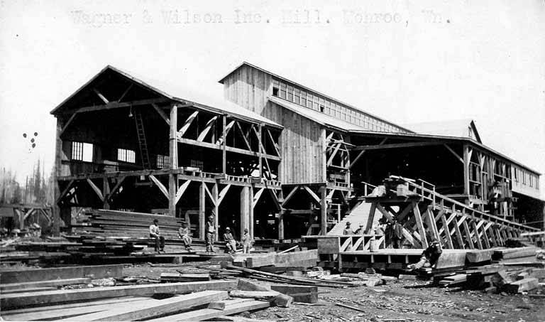 PH Coll 1373.8 Arthur B. Pracna was an architect who specialized in lumber and shingle mills in the Pacific Northwest during the early twentieth century. He was born in Minnesota in 1878 and began his buisness in Everett, Washington in 1902. He continued to work and live in the Seattle area until his death in 1948. He also designed and patented a swivel band-saw guide for use in these mills. Subjects (LCSH): Sawmills--Design and construction; Shingle industry--Washington (State)--Monroe; Wagner & Wilson, Inc.